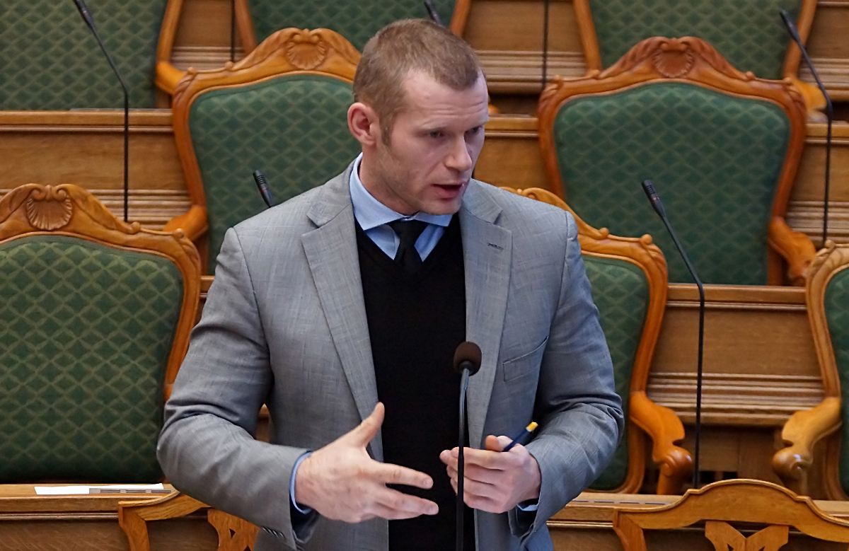 Joachim Brøchner Olsen - Danish politician and MP from Liberal Alliance during meeting in The Danish Parliament "Folketinget", December 2012